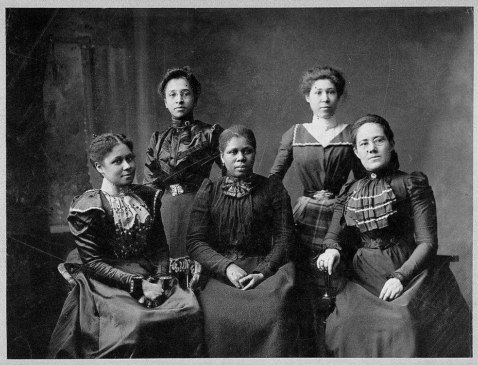 Title: 5 female Negro officers of Women's League, Newport, R.I Physical description: 1 photographic print. Notes: Reportedly displayed as part of the American Negro exhibit at the Paris Exposition of 1900.; Title and other information transcribed from caption card.